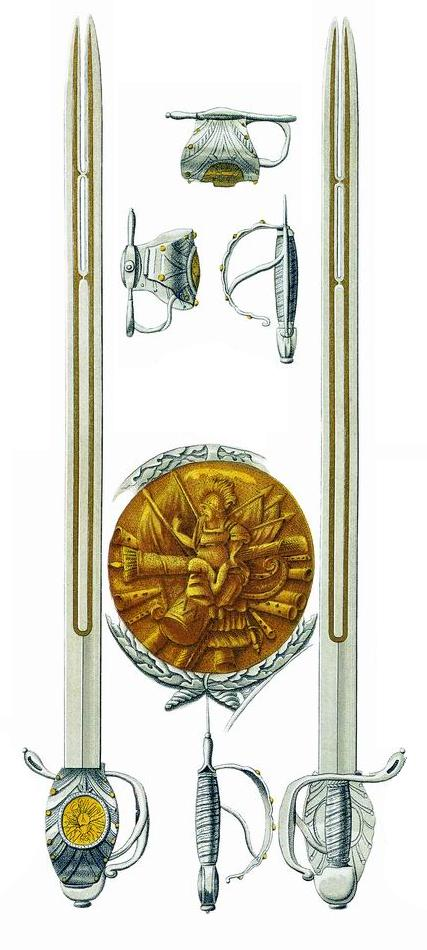 Zulfiqar